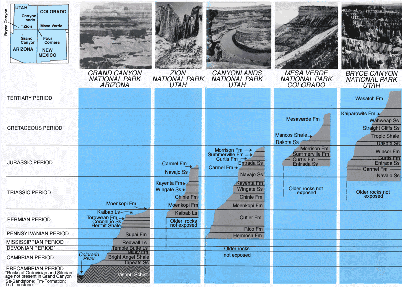 Strata and corresponding geological time period Strata of South West of USA. Grand Canyon National Park, Zion National Park, Canyonlands National Park, Mesa Verde National Park, Bryce Canyon National Park. Time period “Tertiary” is no longer an official term.